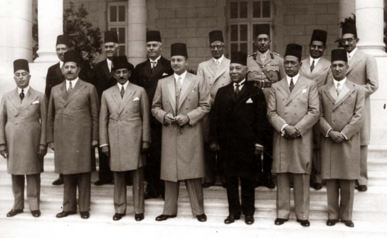 Members of Ali Maher Pasha's second government surround King Farouk I of Egypt.